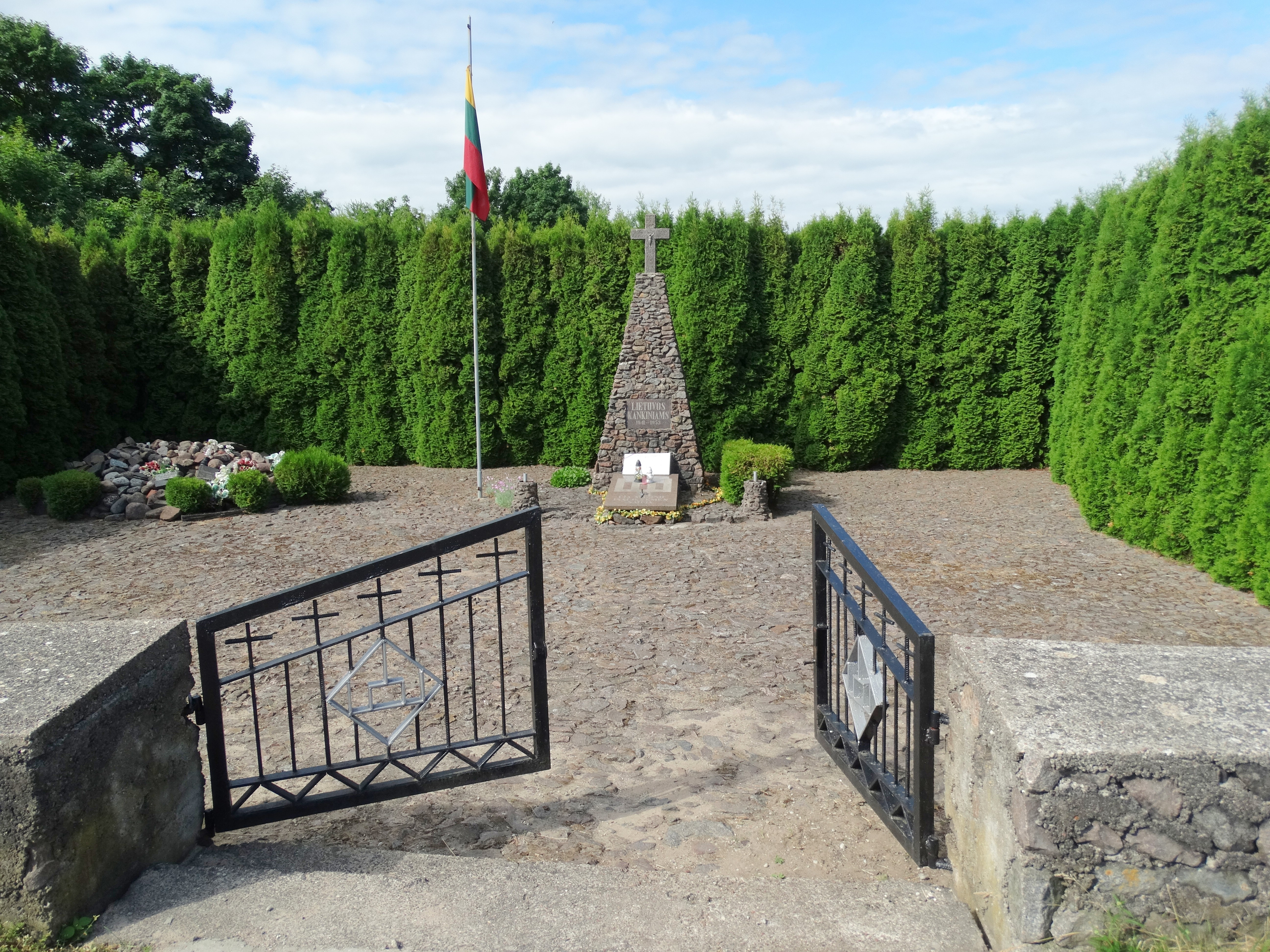 Memorial to martyrs of 1941-1953, Ariogala, Lithuania